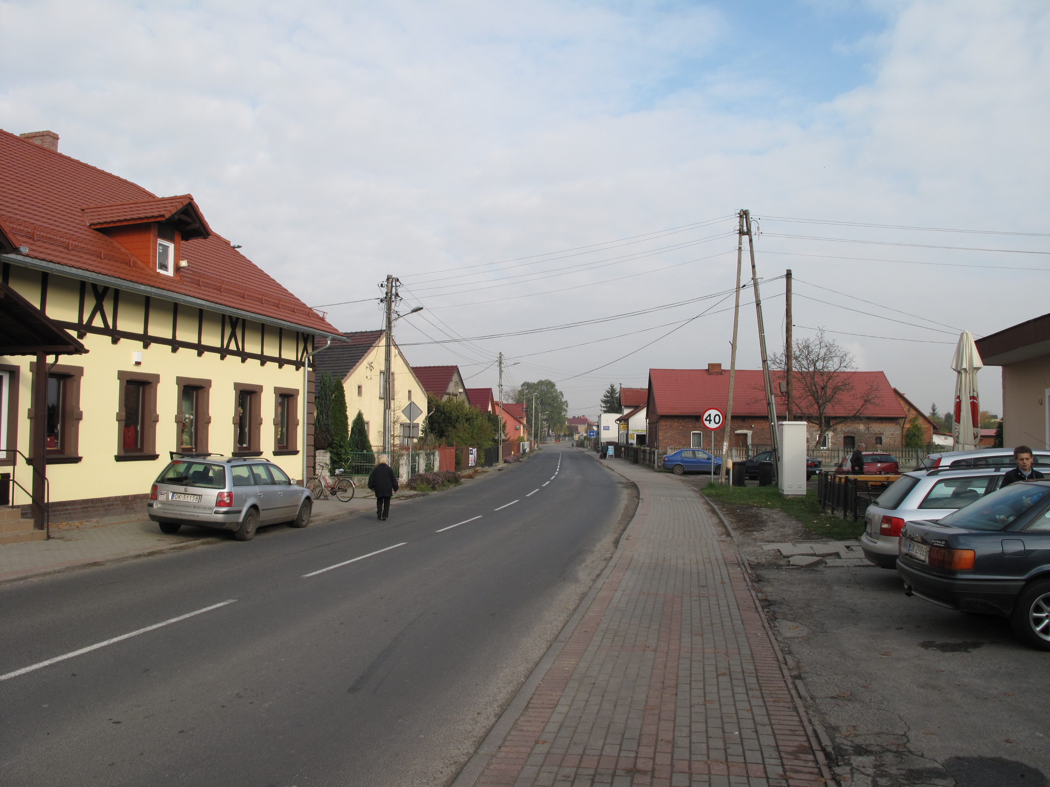 Bierawa. Kędzierzyn-Koźle County, Poland.